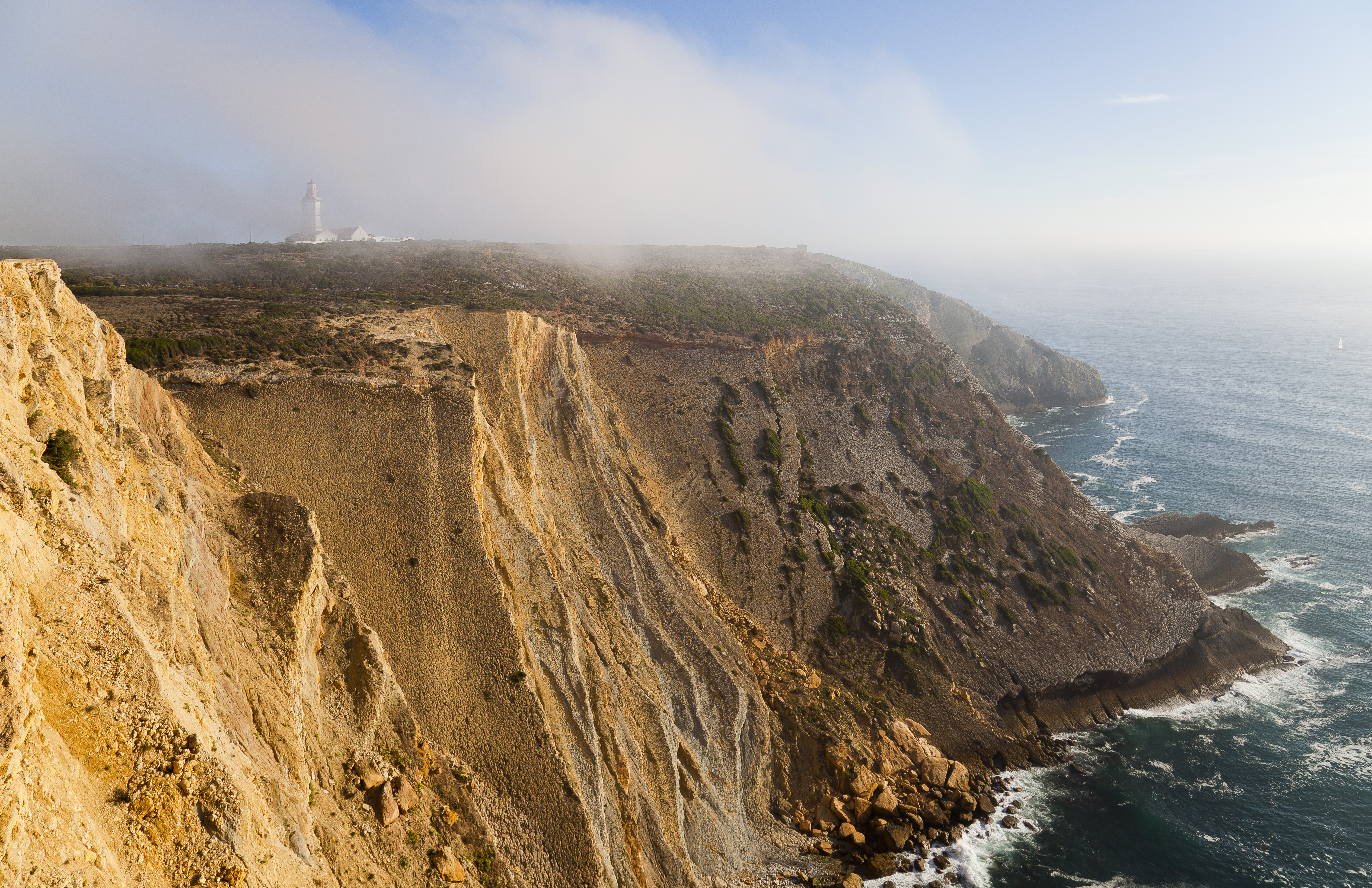 Cape Espichel, Portugal